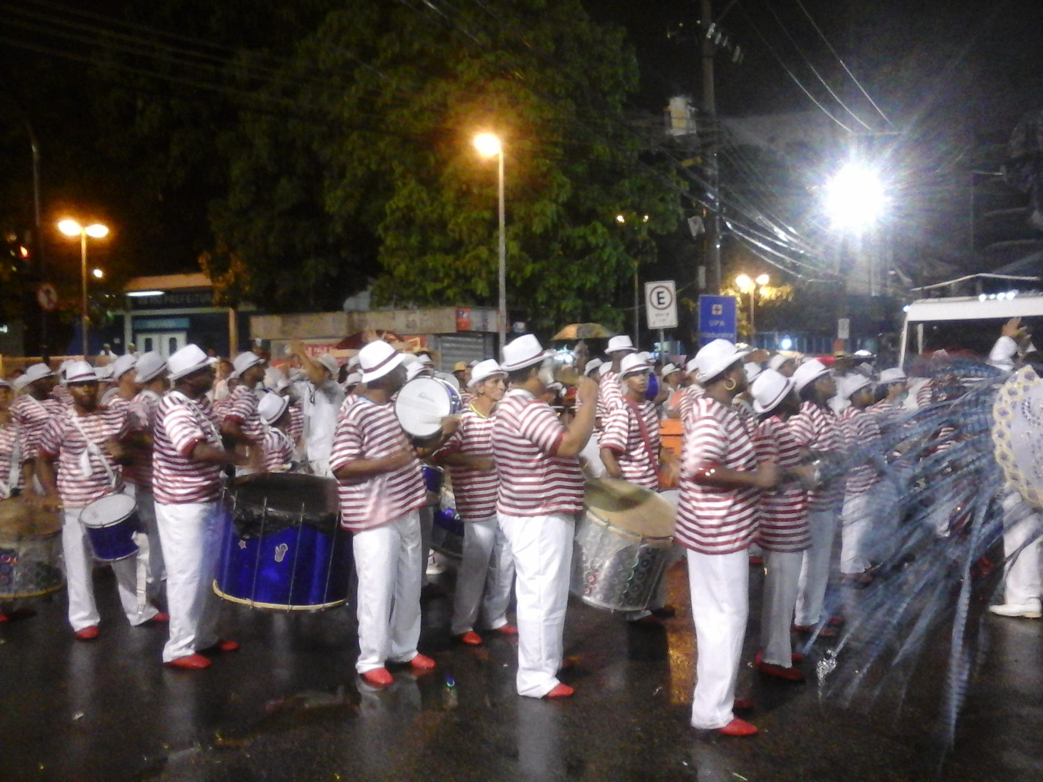 GRES Gato de Bonsucesso